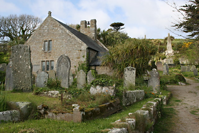 Old Town Church This church has a long history but was almost completely rebuilt in the 19th century. The graveyard contains many graves of shipwreck victims.